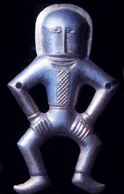 Silver plaque from the treasure of VI-VII centuries, found near the village of Martynivka in the Ros River region.